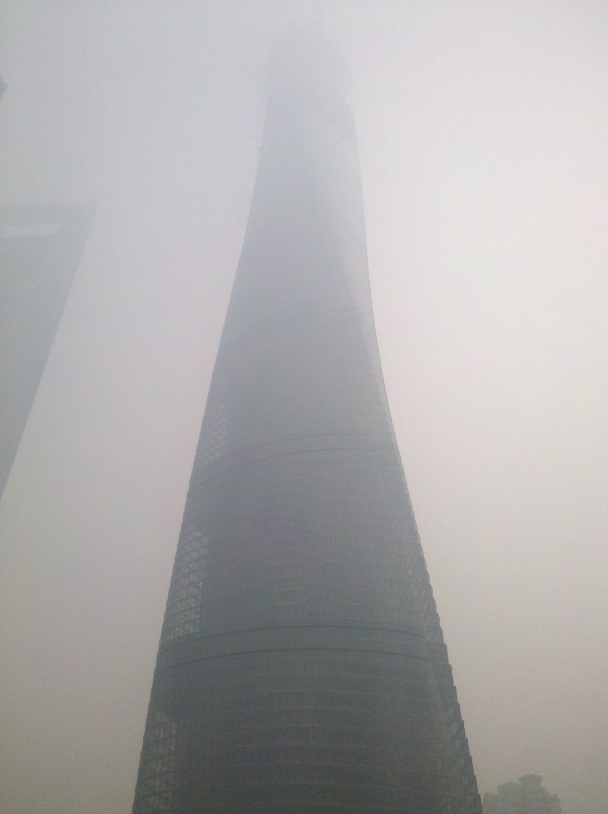 Shanghai Tower in a serious haze on December 6, 2013